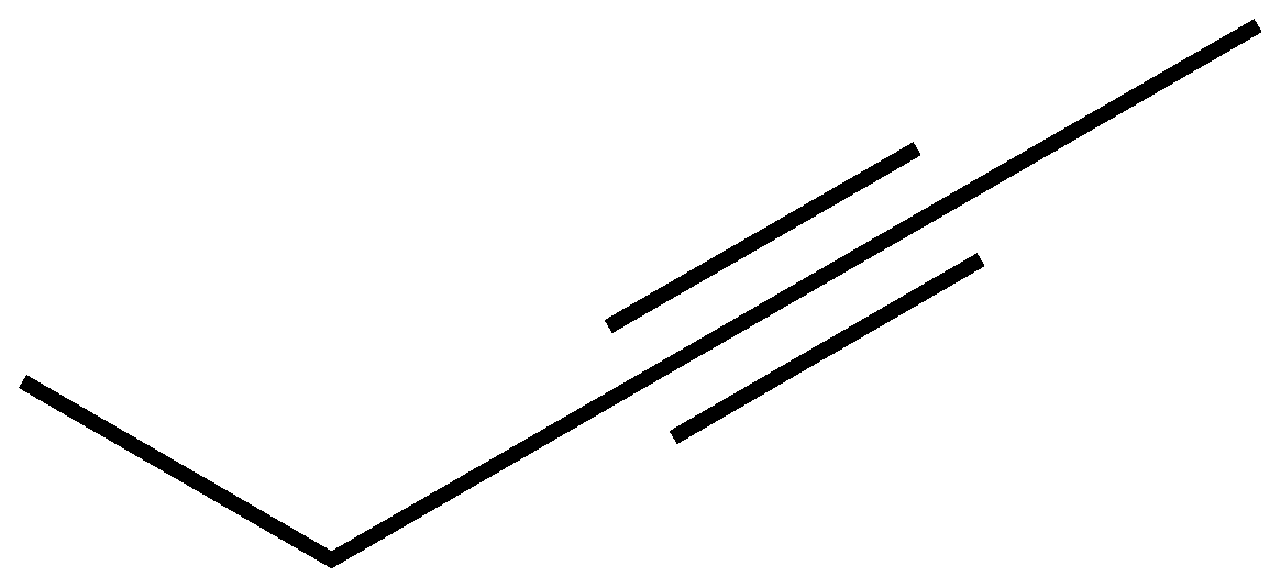 chemical structure of 2-pentyne